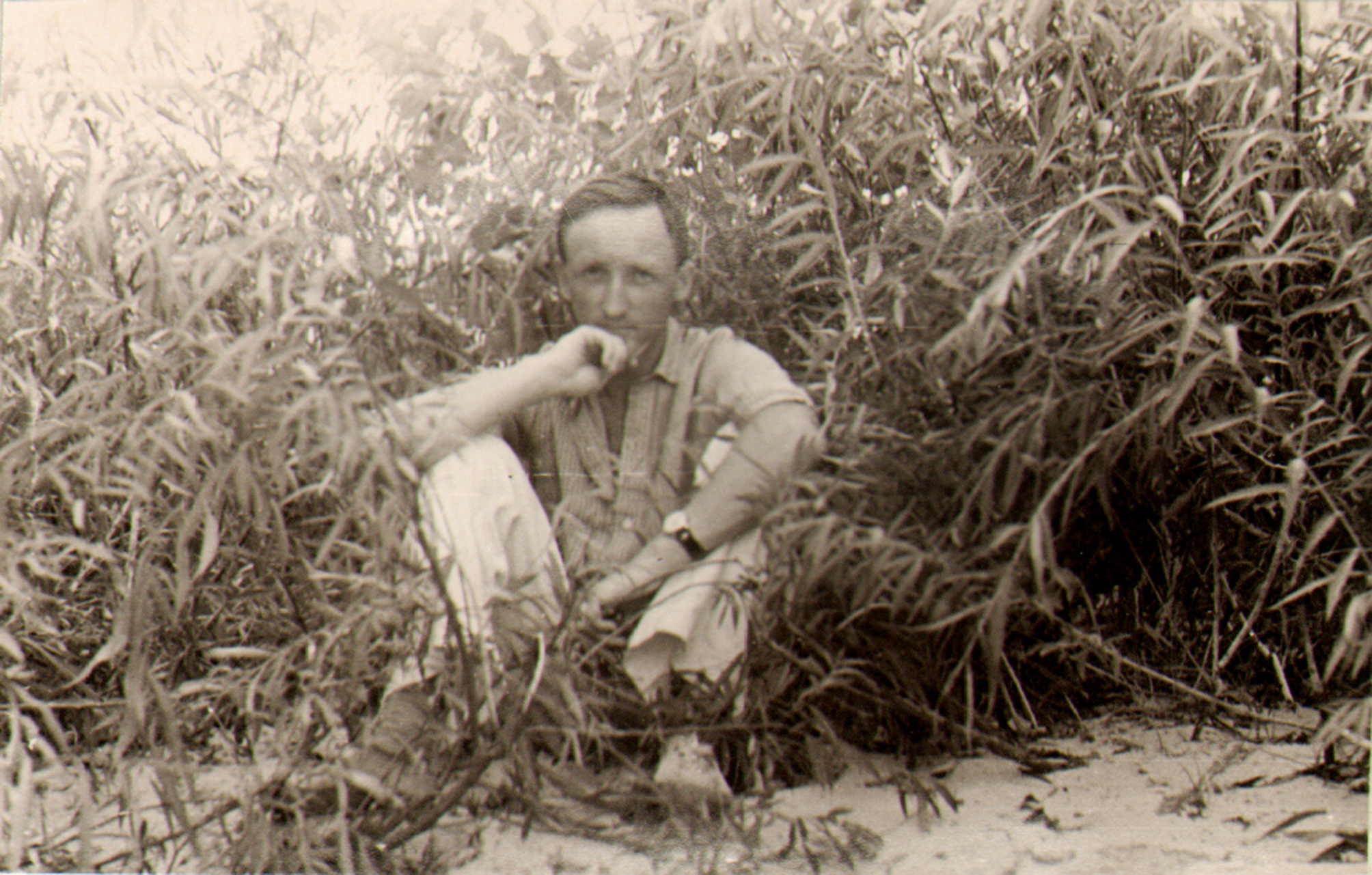 Boris Parygin. Bank of the Dnieper. Kiev. Аҧсшәа: Борис Д. Парыгин в Киеве на берегу Днепра. Лето 1960 года.